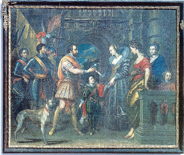 Henry IV of France consigns the governance to Marie de' Medici . 1610